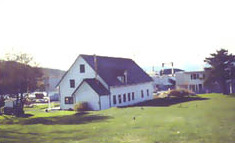 The Russian-American Magazin, a National Historic Landmark located at the intersection of Main and Mission Streets in Kodiak, a city in the Kodiak Island Borough of the U.S. state of Alaska. Built in 1793, the building was used by both Russian and American trading companies; today, it is a museum. It was designated a National Historic Landmark on 13 June 1962 and listed on the National Register of Historic Places on 15 October 1966.